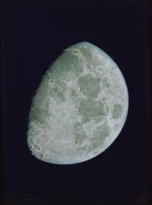 The Face of the Moon, John Russell (1793-97)